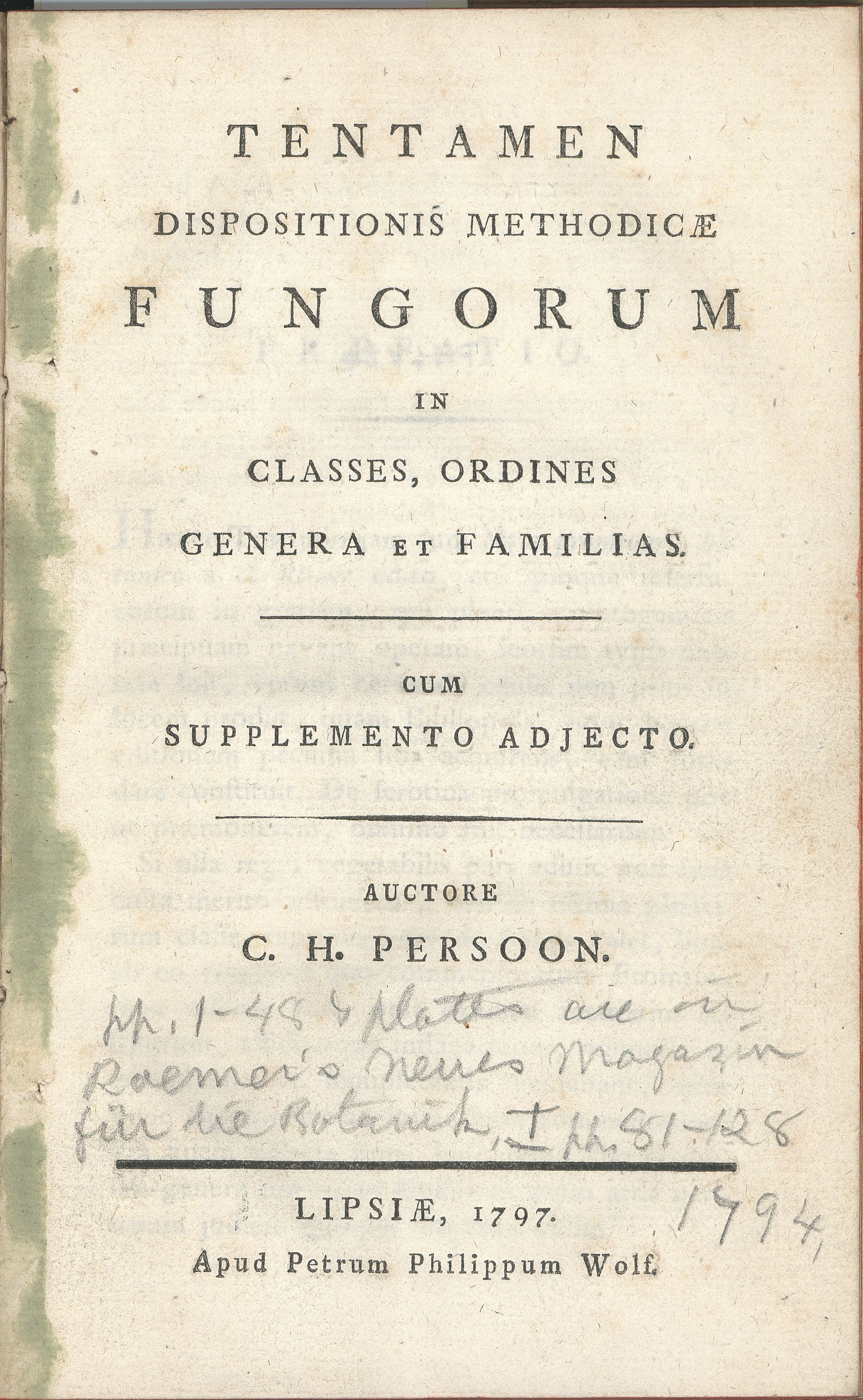 Title page of Tentamen dispositionis methodicae fungorum in classes, ordines, genera et familias (cum supplemento adjecto), by Christiaan Hendrik Persoon (1797)